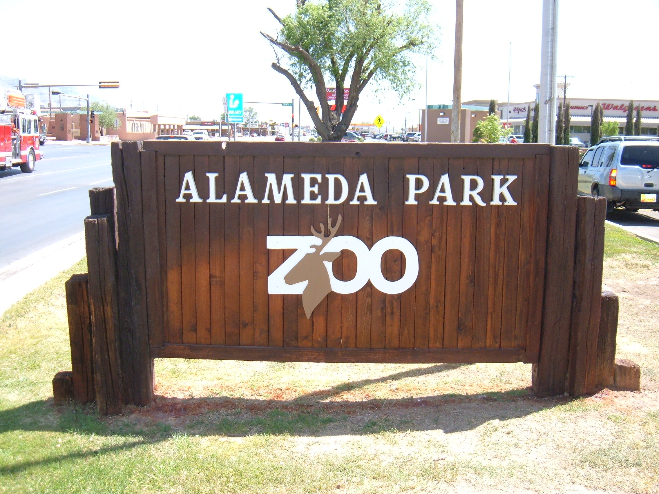 sign on White Sand Blvd in front of Alameda Park Zoo in Alamogordo, New Mexico